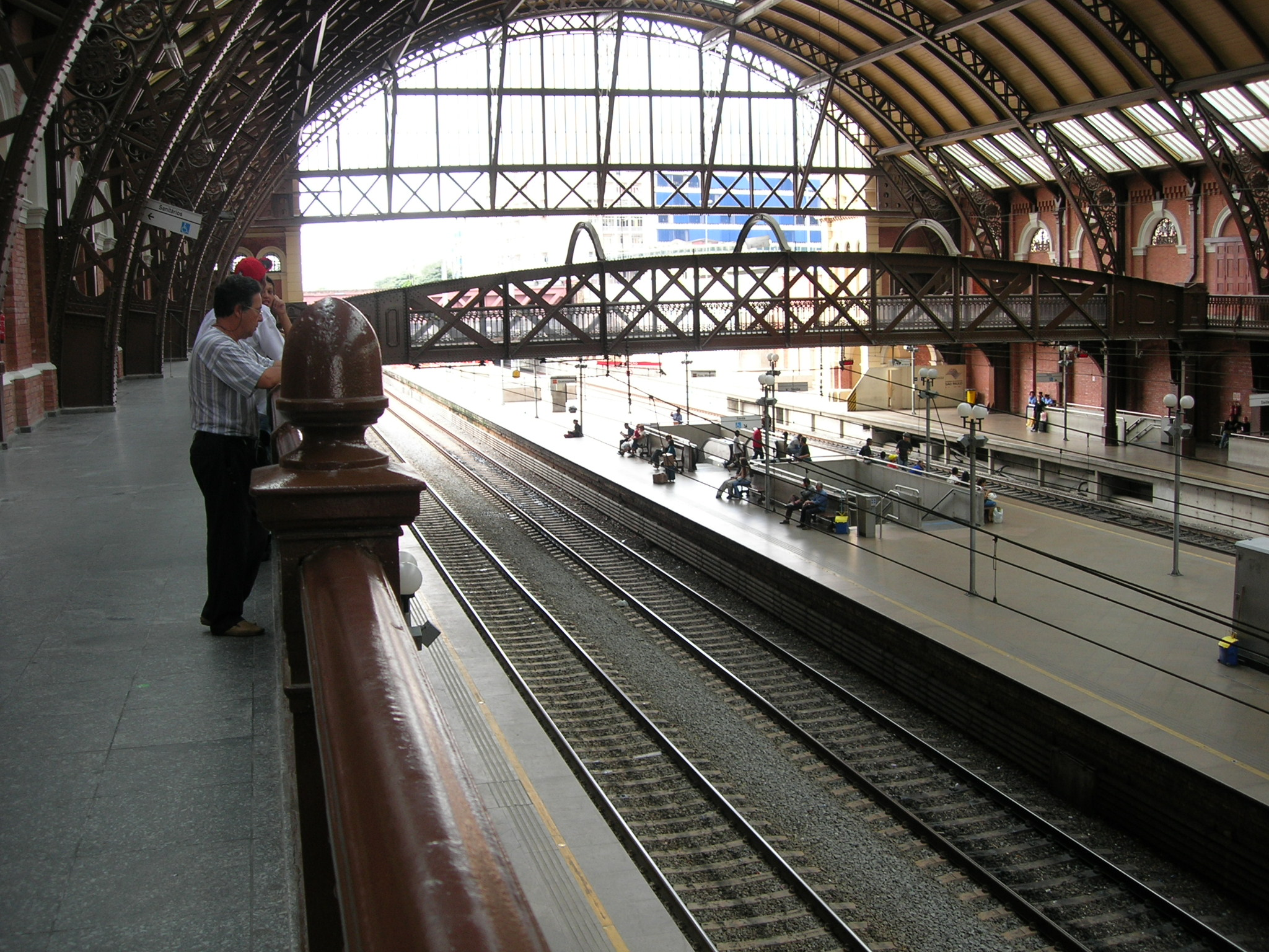 Shot of the Luz rail and subway station - São Paulo, SP